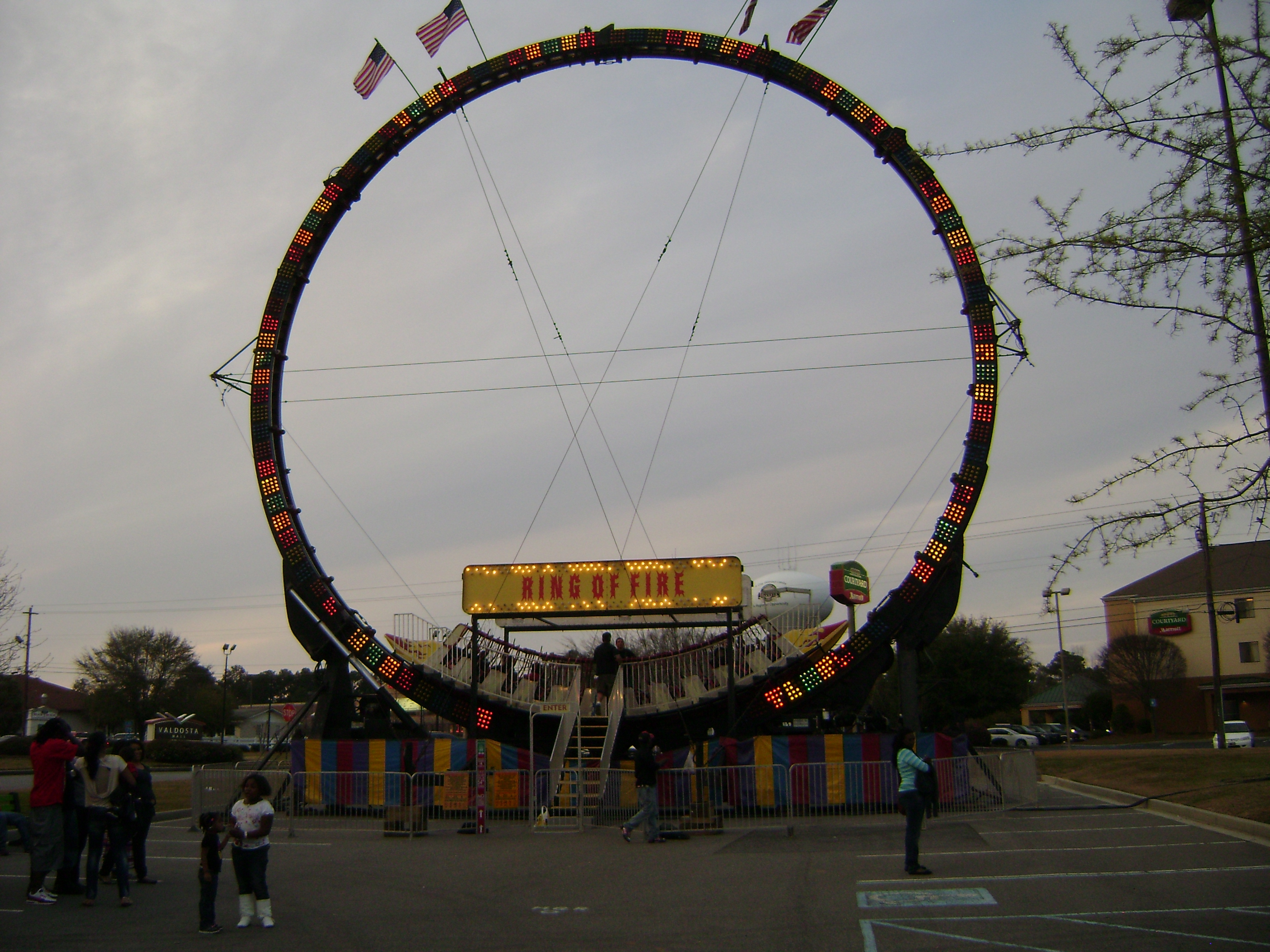 Spring Fling Festival 2013